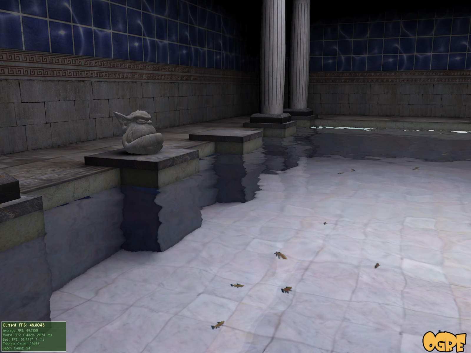 This is a captured screenshot from the official OGRE Demos pack, from "Fresnel Reflections and Refractions" benchmark. Rendering options: 1600*1200 pixel resolution, OpenGL renderer, 16x FSAA and 32-bit color depth. This test demonstrates rendering of water, with reflections and refractions. This frame contains 23653 triangles.